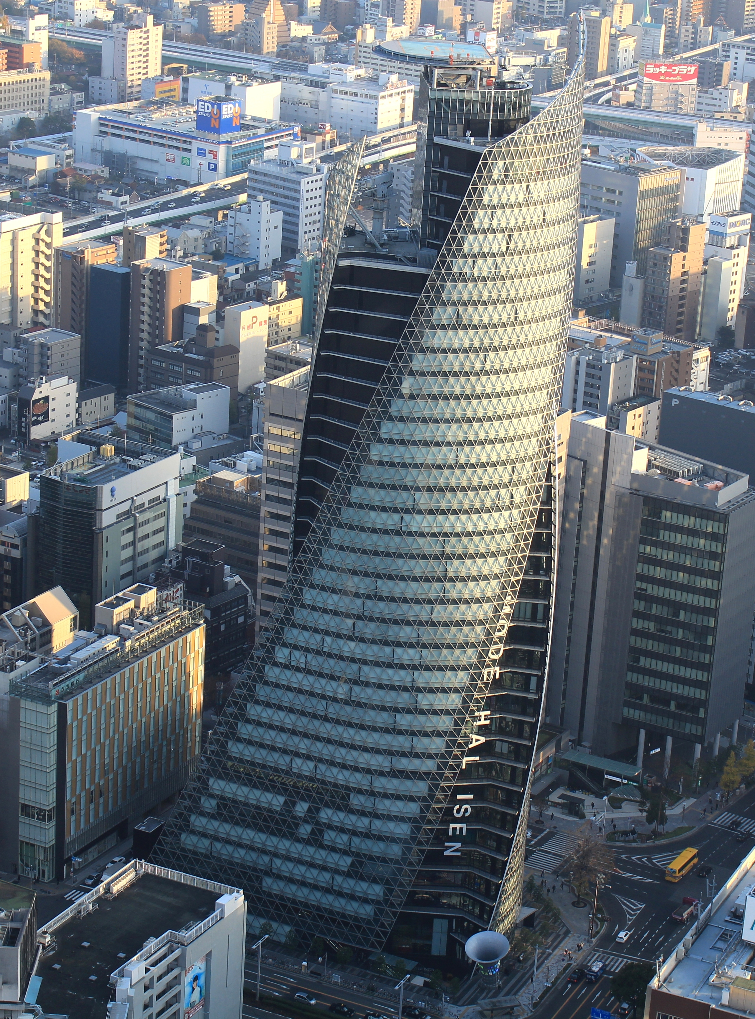 Nagoya Mode Academy Spiral Towers seen from JR Central Towers in Meieki, Nakamura-ku, Nagoya, Aichi prefecture, Japan.